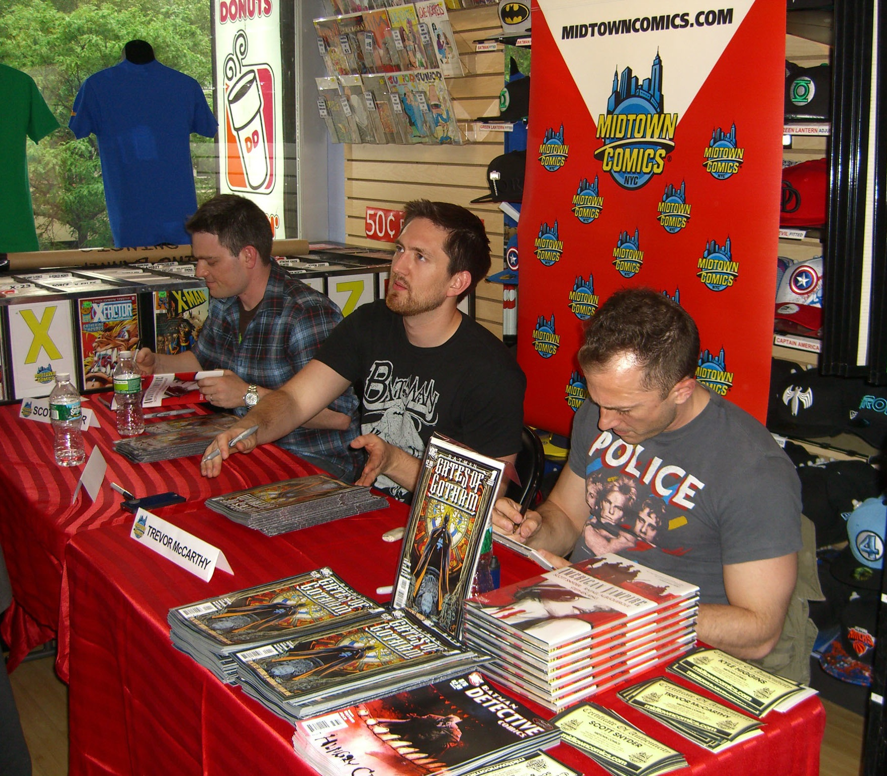 (From left to right) Comics writers Scott Snyder and Kyle Higgins with comics artist Trevor McCarthy at a signing for Batman: Gates of Gotham at Midtown Comics Downtown in Manhattan, May 19, 2011. Photographed by Luigi Novi. This photo is not in the public domain. It may, however, be used, modified and published for any purpose, free of charge, only if the photographer is properly credited, either by linking the photograph to this page, or with an easily visible credit to the photographer placed near the photo in each instance in which it is used. (See licensing information below.) Publication of this photo without this proper attribution constitutes copyright infringement. If you have any questions, you can contact me on my Wikipedia Talk Page.